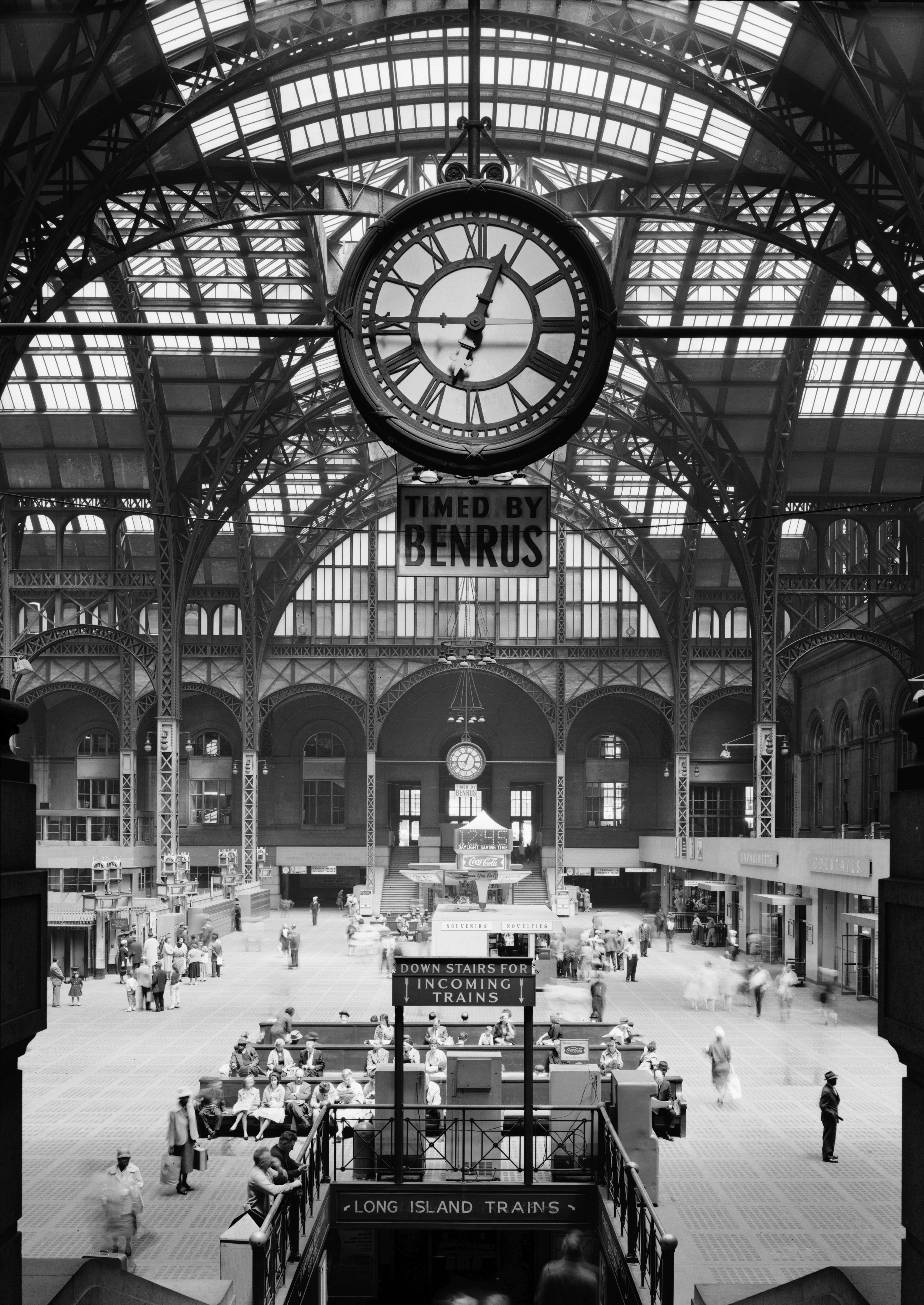 9. Historic American Buildings Survey, Cervin Robinson, Photographer April 24, 1962, CONCOURSE FROM SOUTH. - Pennsylvania Station, 370 Seventh Avenue, West Thirty-first, Thirty-first-Thirty-third Streets, New York, New York County, NY